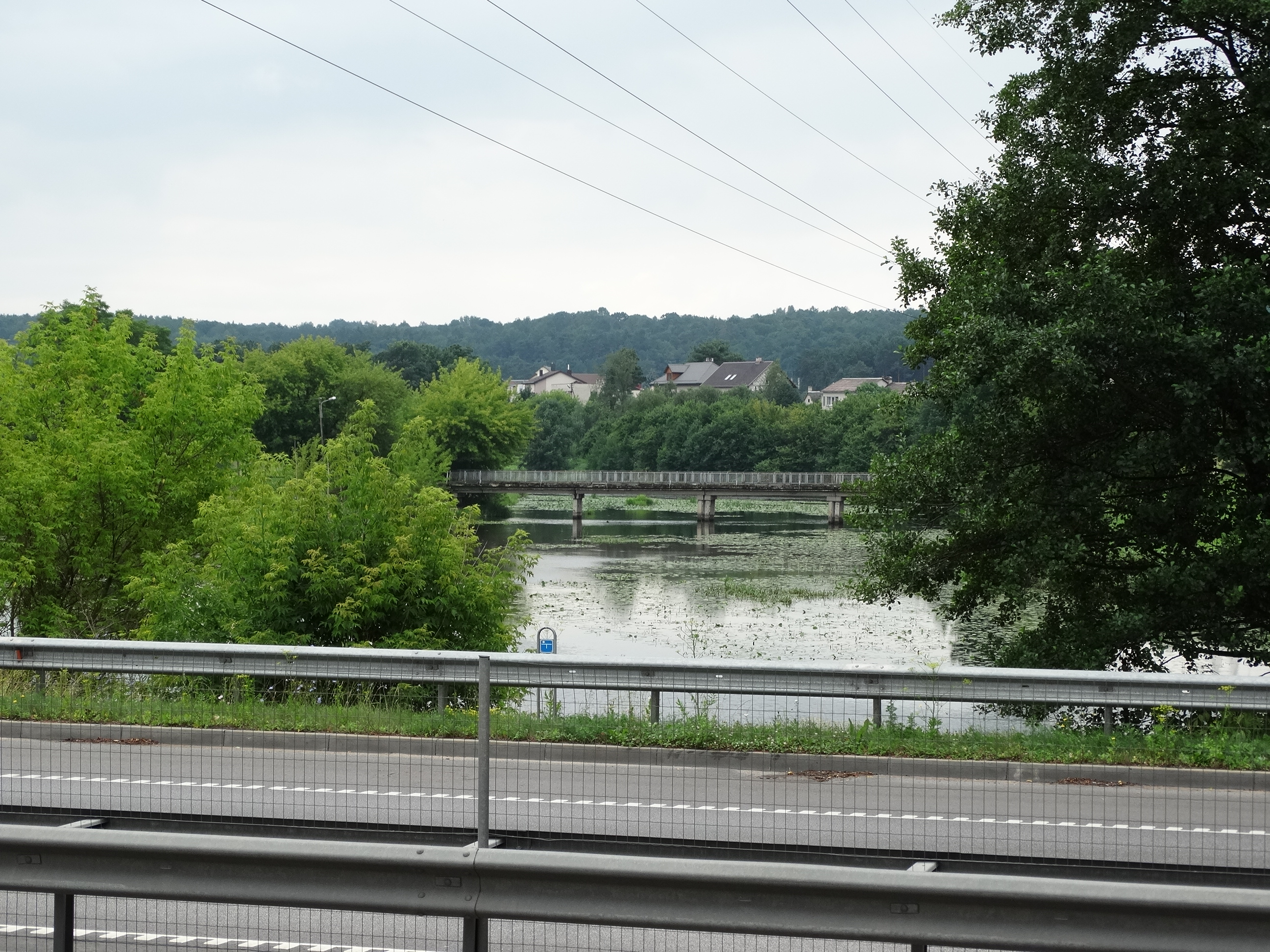 Pond, Grigiškės, Lithuania